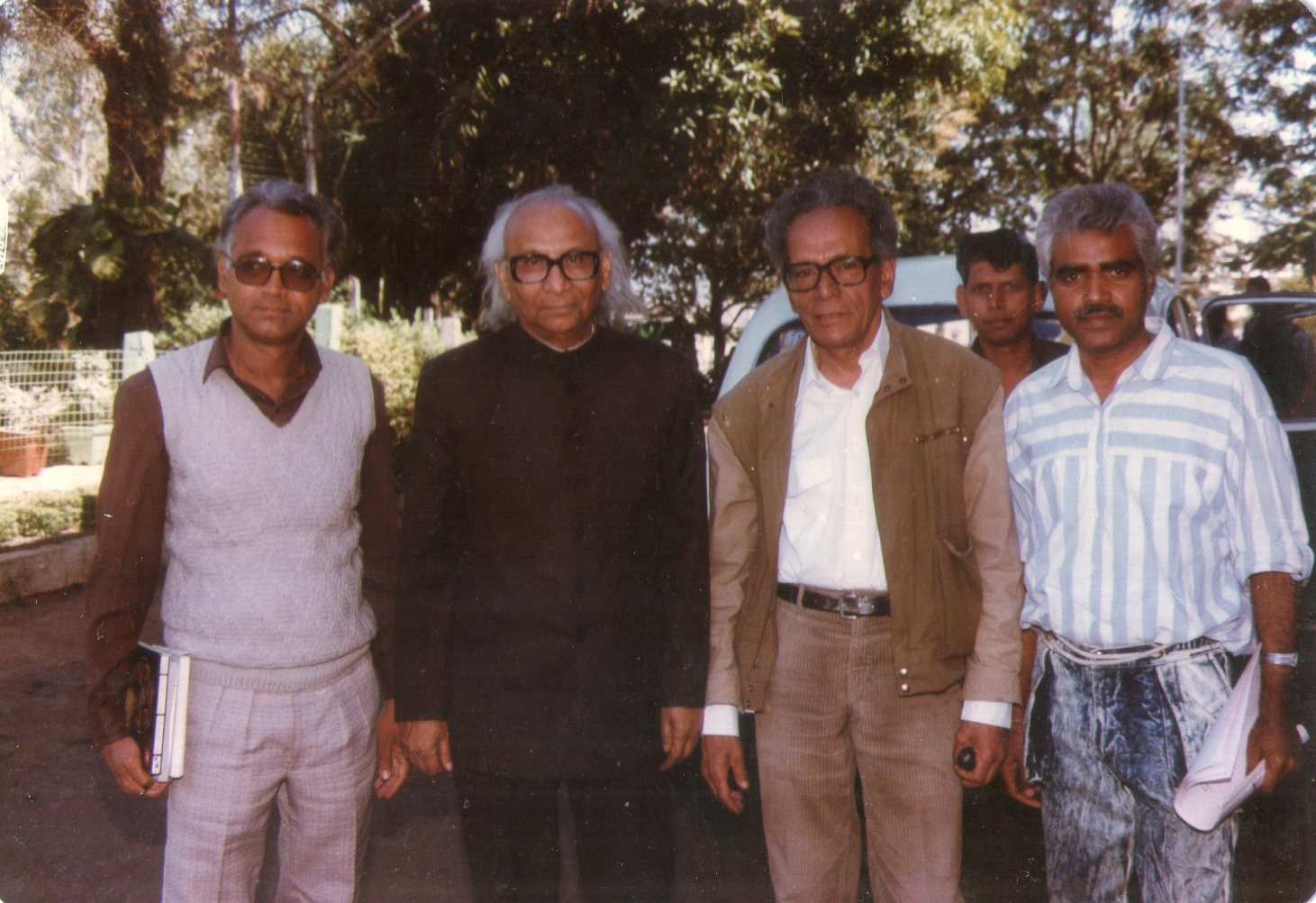 L to R:- Mr. Khalid Abidi, Prof. Abdul Qavi Desnavi, Palywright Habib Tanvir